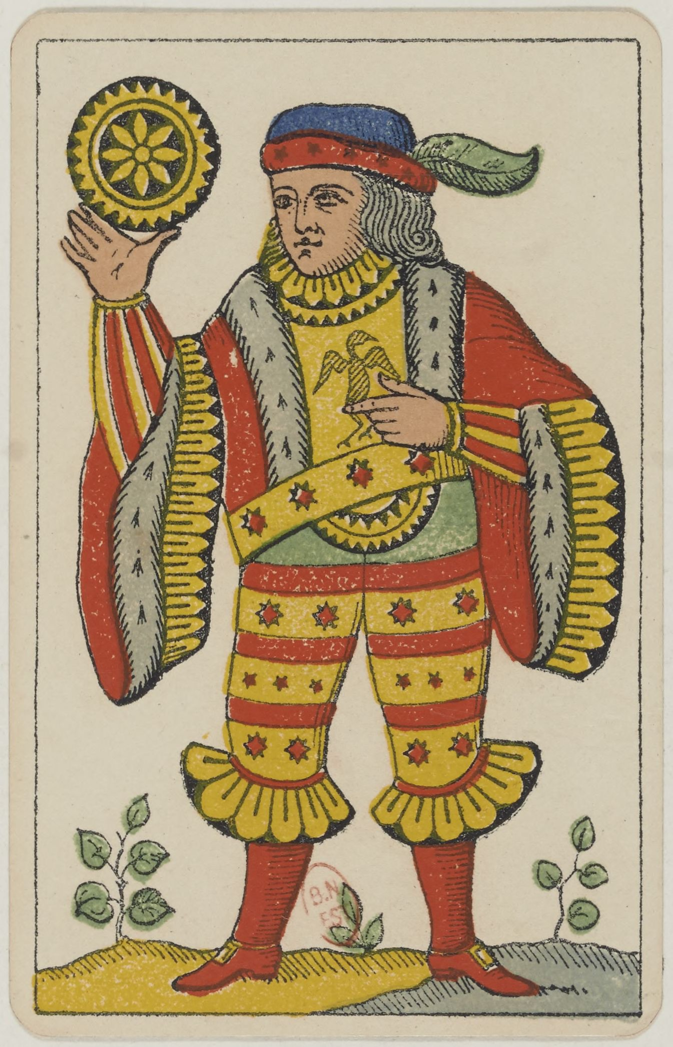 Aluette deck, B. P. Grimaud editor, France, 1858-1890: Jack of Coins